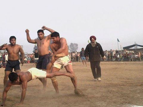 playing kabaddi tournament in pind